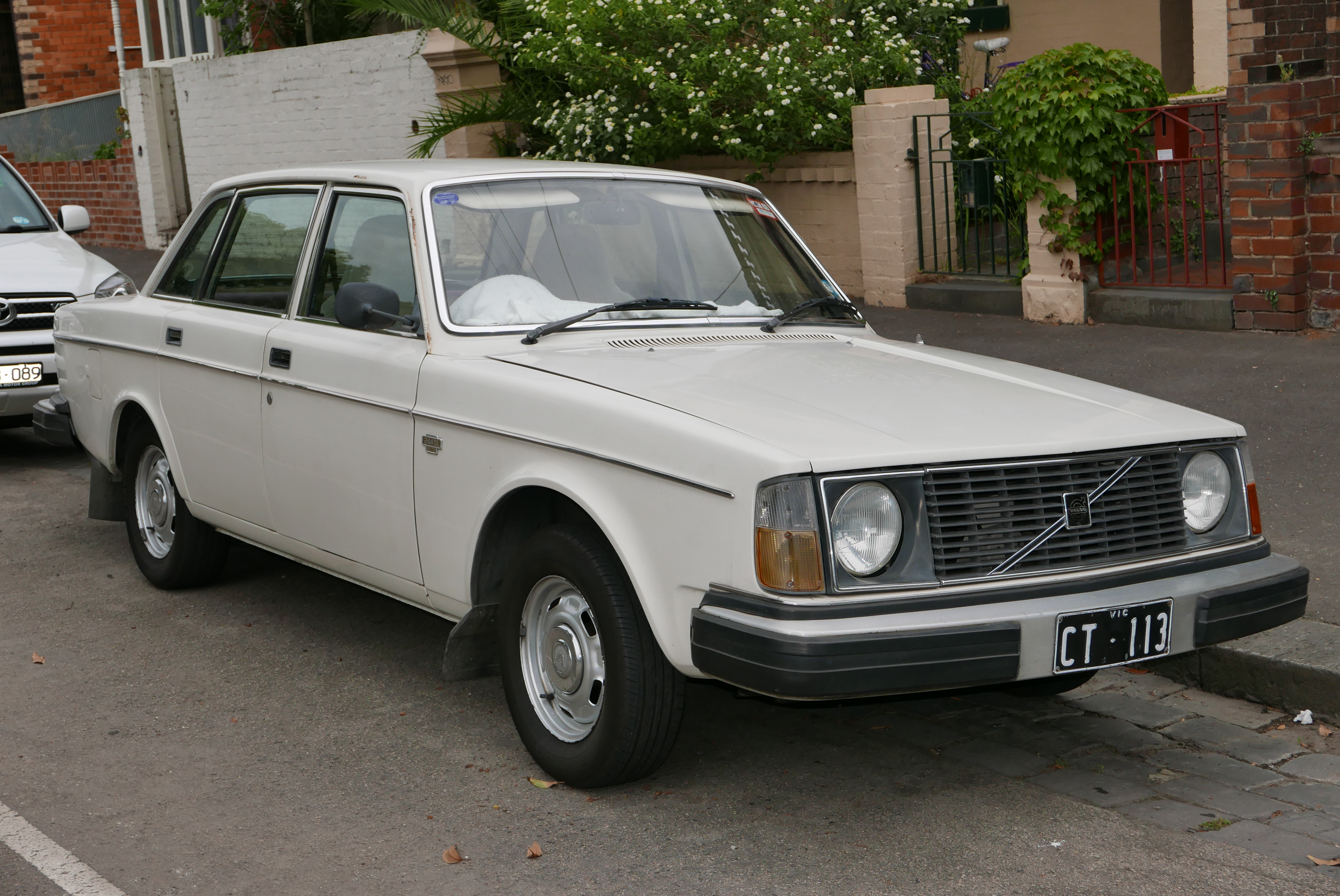 1978 Volvo 244 DL sedan. Photographed in Princes Hill, Victoria, Australia. Vehicle registration enquiry results Jurisdiction Victoria Registration CT113 Chassis code Not available Engine code 49857002896 Compliance date Not available Year of manufacture 1978